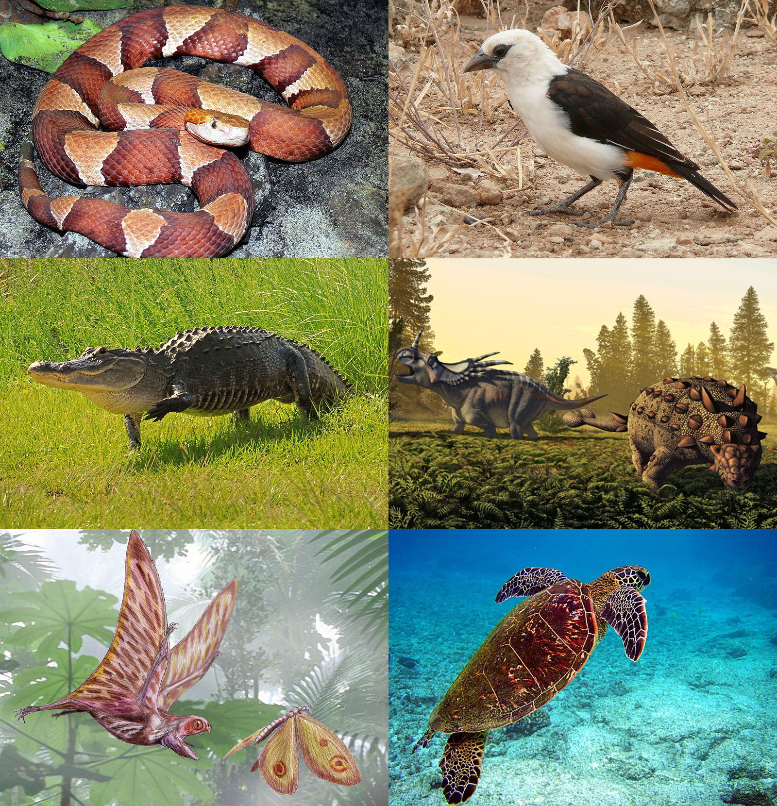 Diversity of reptiles (clade Sauria/crown Reptilia). Based on File:Diapsida diversity.jpg. Clockwise from top right: Dinemellia dinemelli; Styracosaurus albertensis & Scolosaurus cutleri; Chelonia mydas; Anurognathus ammoni; Alligator mississippiensis; Agkistrodon contortrix.